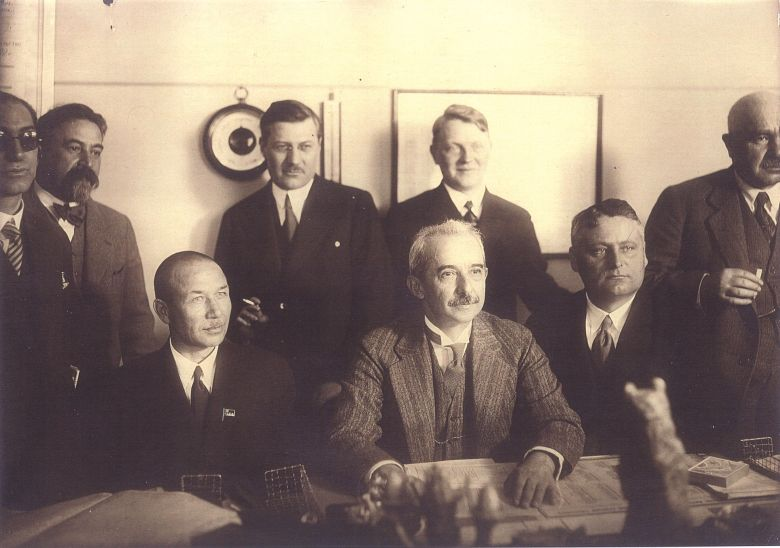 Ismet's visit to Moscow 1932